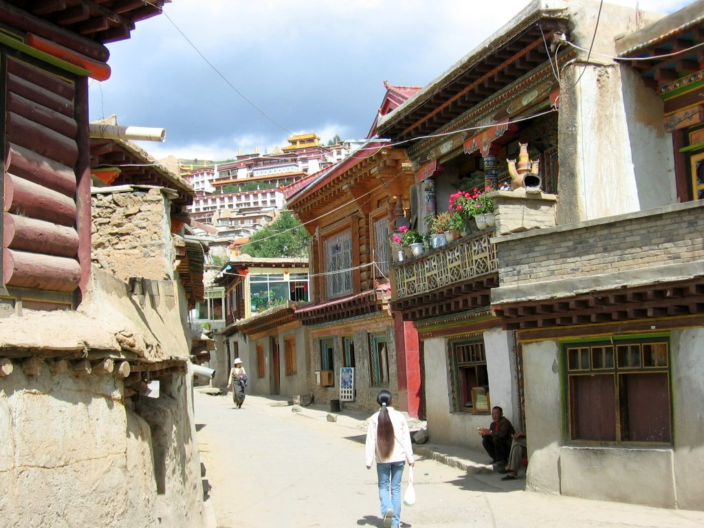 Ganzi (Garze) is a town in Garzê Tibetan Autonomous Prefecture in western Sichuan Province, China. It is an ethnic Tibetan township located in the historical Tibetan region of Kham.